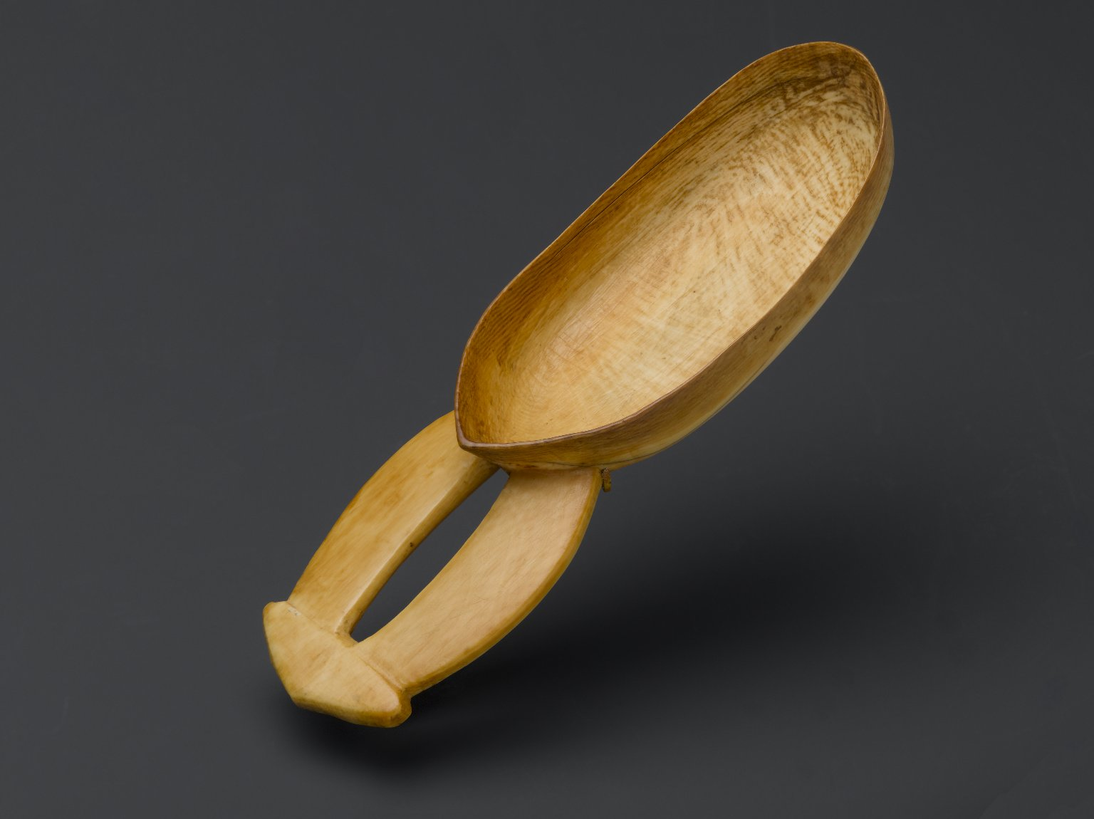 Spoon with deep oval bowl and short handle that has two wide curved supports joined at the top by a triangular bridge. Handle side of bowl is pointed. Ivory has a warm golden patina.